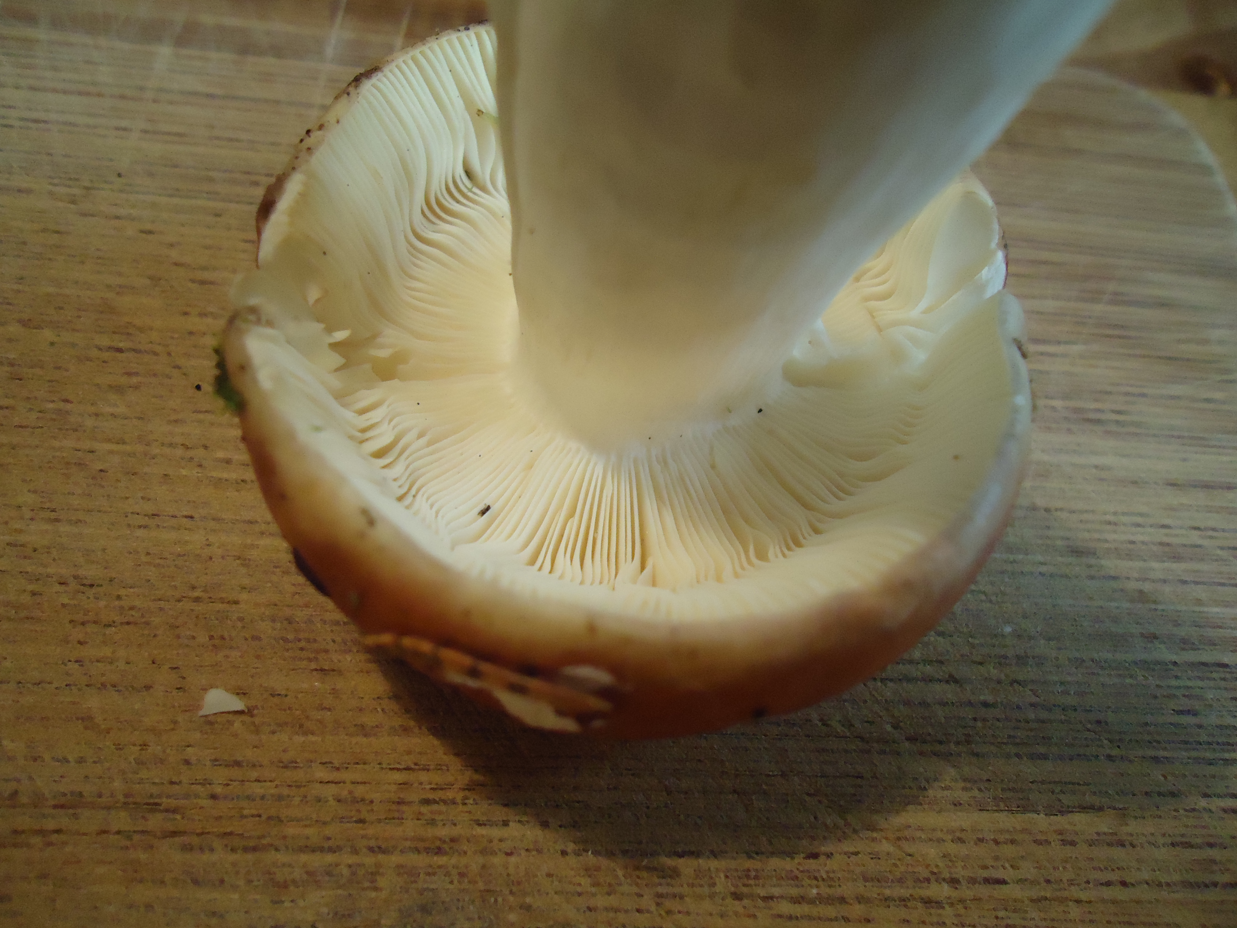 Russula paludosa from the Bavarian Forest